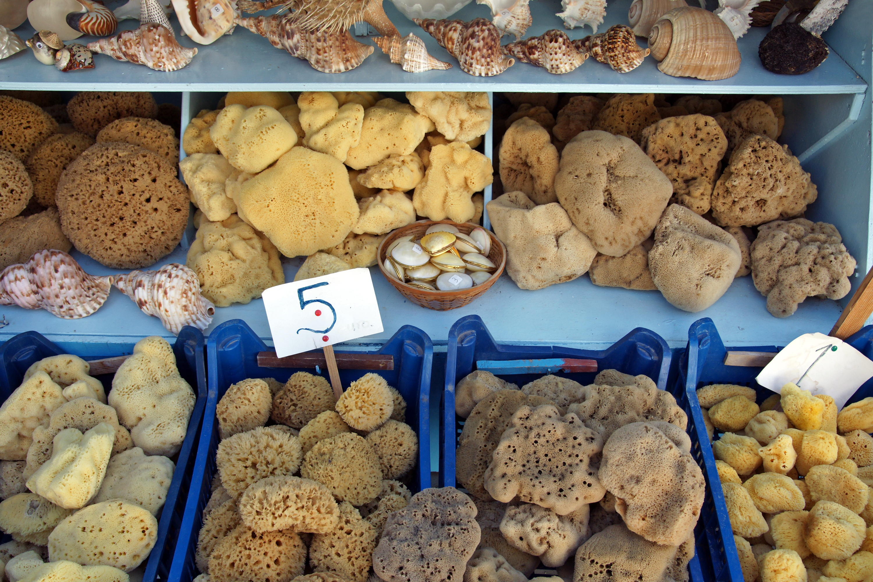 Natural sponges on sale in Kalymnos, Greece.